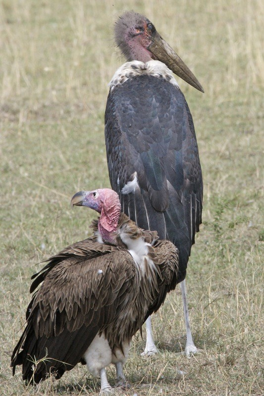 Lappet faced vulture (Torgos tracheliotus) - front Marabou Stork (Leptoptilos crumeniferus) 690V1412